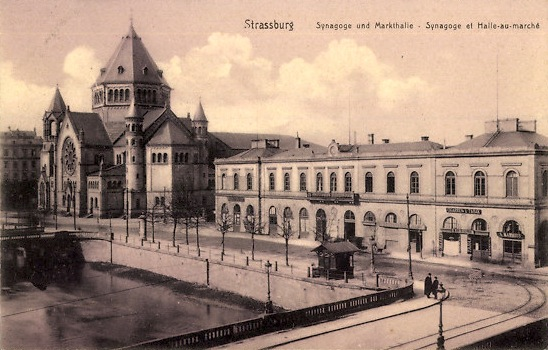 An old train station of the Compagnie des chemins de fer de l'Est (right) and the Kléber Quay Synagogue.